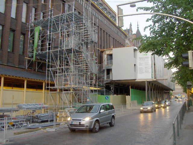 Stockmann department store in Helsinki, Finland